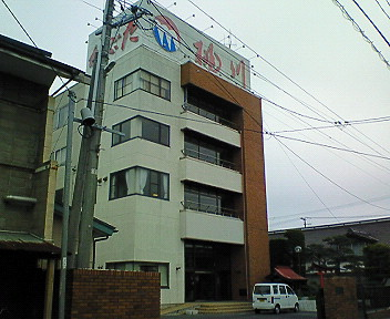 Momokawa Brewing Incorporated Head Office